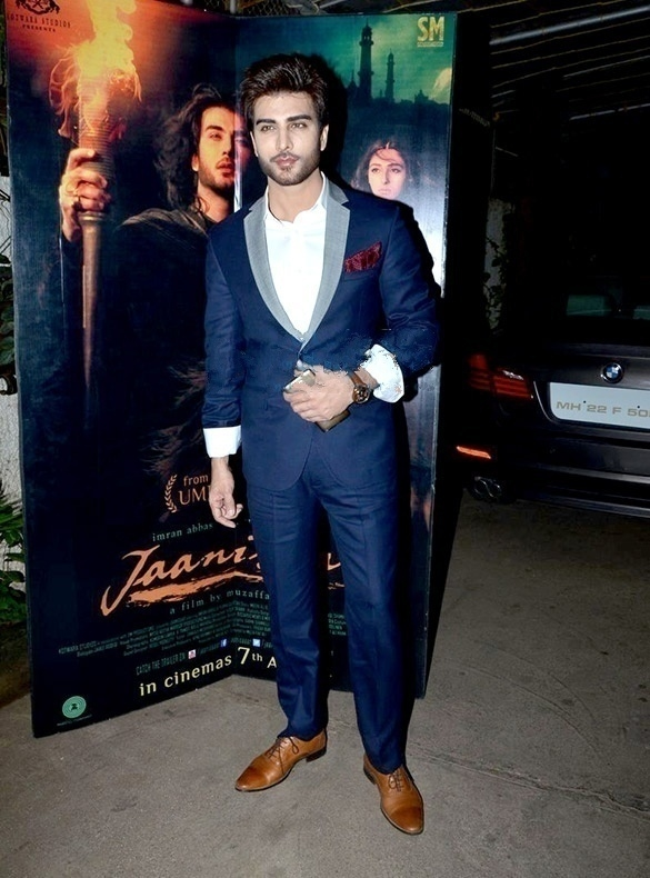 Abbas at 'Jaanisaar' screening